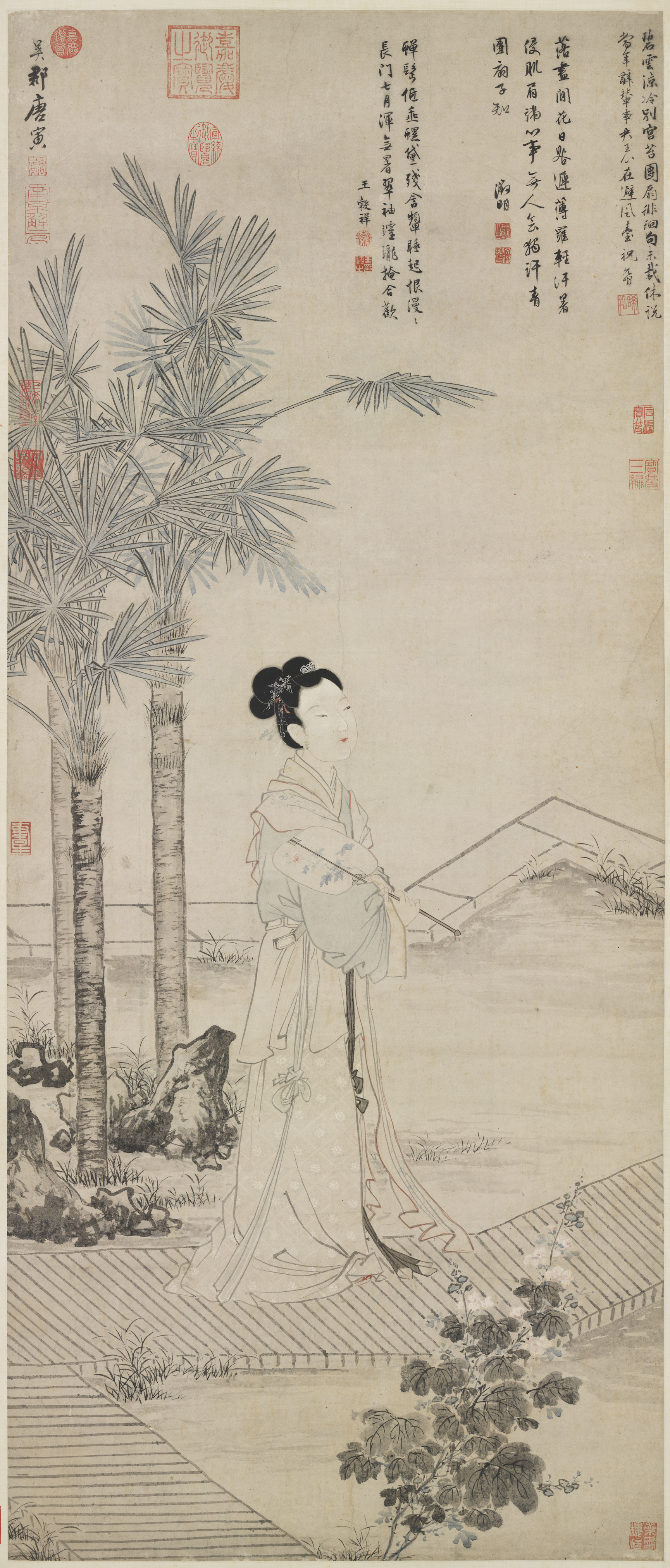 Concubine Ban's Rounded Fan. Tang Yin (1470-1523), Ming dynasty Hanging scroll, ink and colors on paper, 150.4 x 63.6 cm